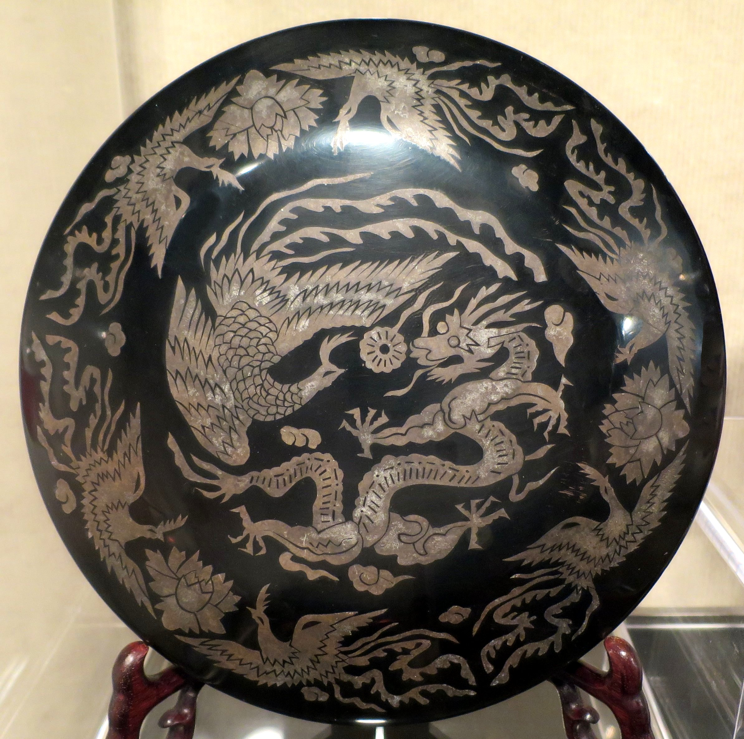 Black lacquer box from China, lacquer on wood with silver, 20th century, East-West Center